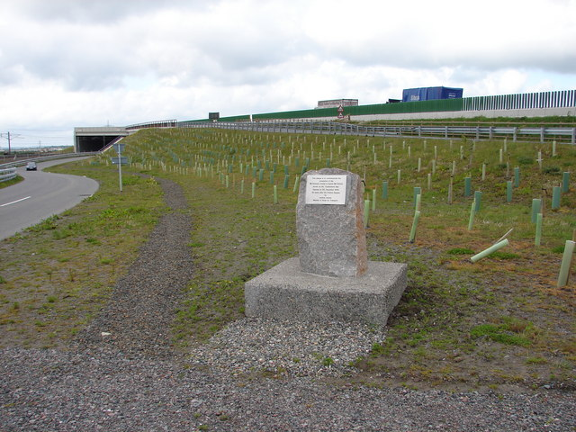 Mossband Viaduct and Cumberland Gap Plaque View of the southwest side of the reconstructed Mossband Viaduct on the M6 extension between Carlisle and Guards Bridge (Gretna). On the right is the new all-purpose road for non-motorway traffic and beyond the fence is the new M6 extension. Left of the plaque and emerging from under the viaduct is the slip road from Mossband House and the West Coast Main Line Railway. The plaque reads: This plaque is to commemorate the completion of the extension of the Carlisle to Guards Bridge Scheme known as the ‘Cumberland Gap’ opened on the 5th December 2008 50 years after the Preston Bypass. By Andrew Adonis Minister of State for Transport.